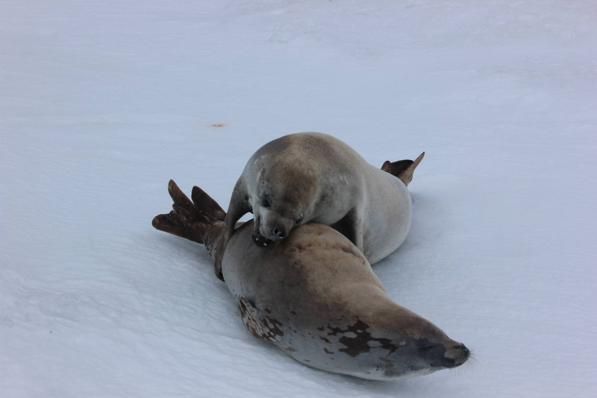 Crabeater seals at mating season